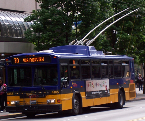 Taken my Neil Hodges. One of Metro's new Gillig Phantom trolleys, in Seattle on the route 70.